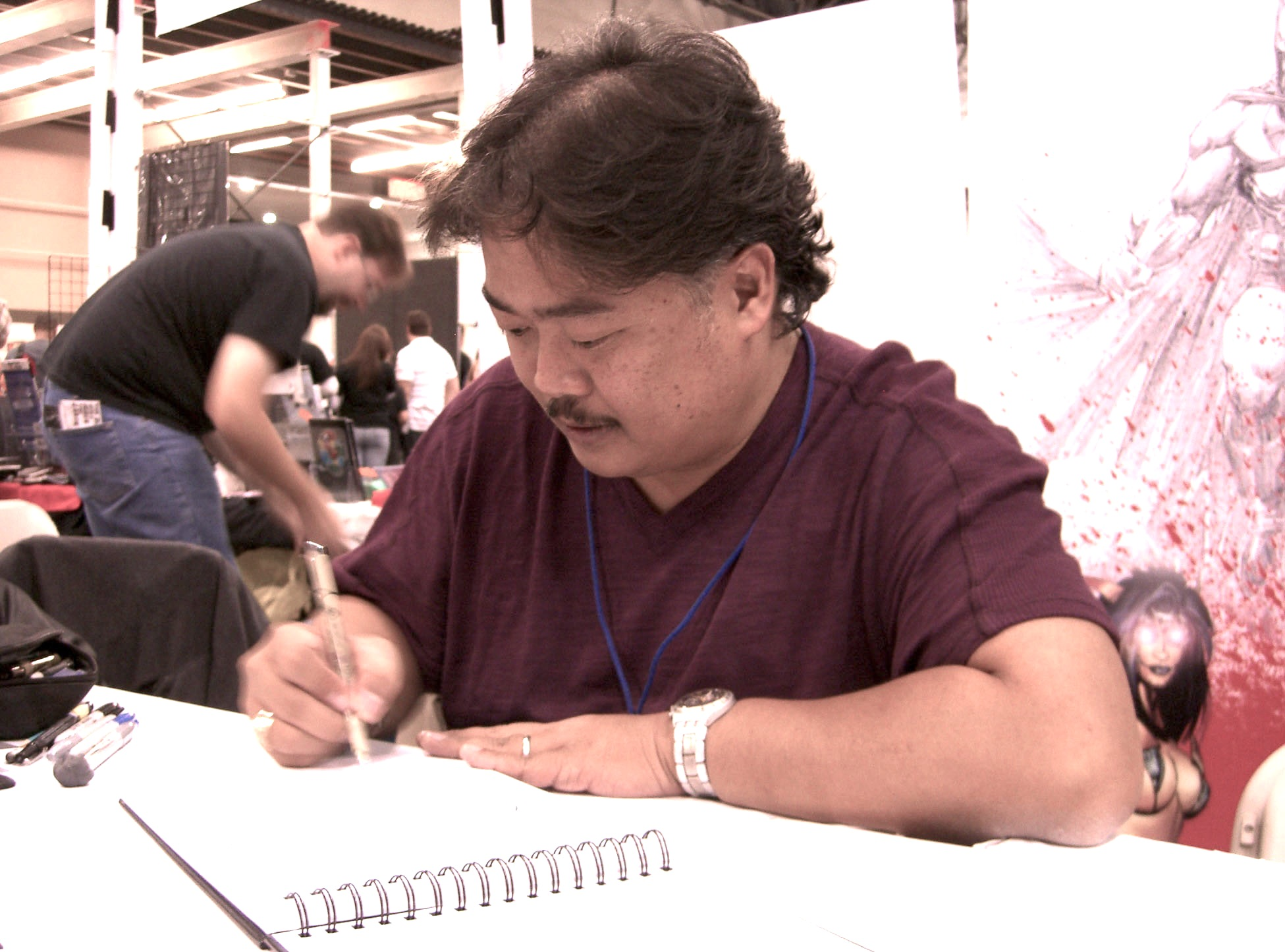 Comic book creator Whilce Portacio, at the New York Comic Convention in Manhattan, October 10, 2010. Photo by Luigi Novi. This photo may be used, modified and published for any purpose, only if a easily visible credit to the photographer is placed near the photo in each instance in which it is used. (See licensing information below.) Publication of this photo without this proper attribution constitute copyright infringement. For more information on my photos, you can contact me here.